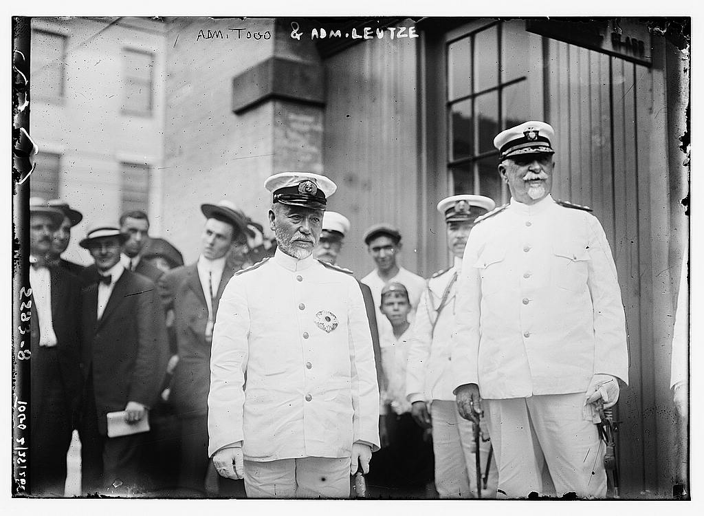 Bain News Service,, publisher. Adm. Tōgō Heihachirō & Adm. Eugene Henry Cozzens Leutze on August 16, 1911 [between 1910 and 1915] 1 negative : glass ; 5 x 7 in. or smaller. Notes: Title from unverified data provided by the Bain News Service on the negatives or caption cards. Forms part of: George Grantham Bain Collection (Library of Congress). Format: Glass negatives. Repository: Library of Congress, Prints and Photographs Division, Washington, D.C. 20540 USA, General information about the Bain Collection is available at Persistent URL: Call Number: LC-B2- 2283-8